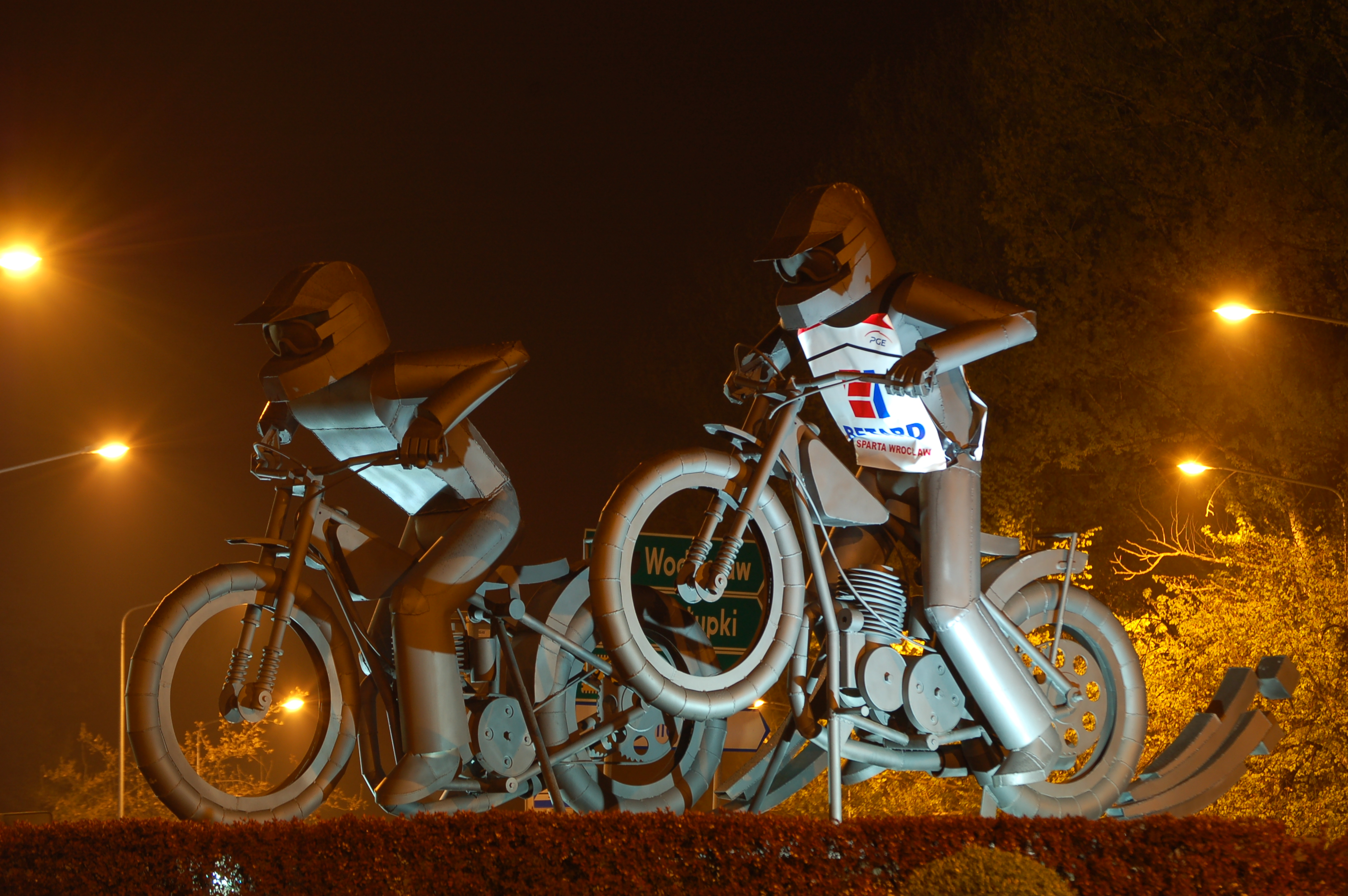 Monument of speedway riders in Rybnik.